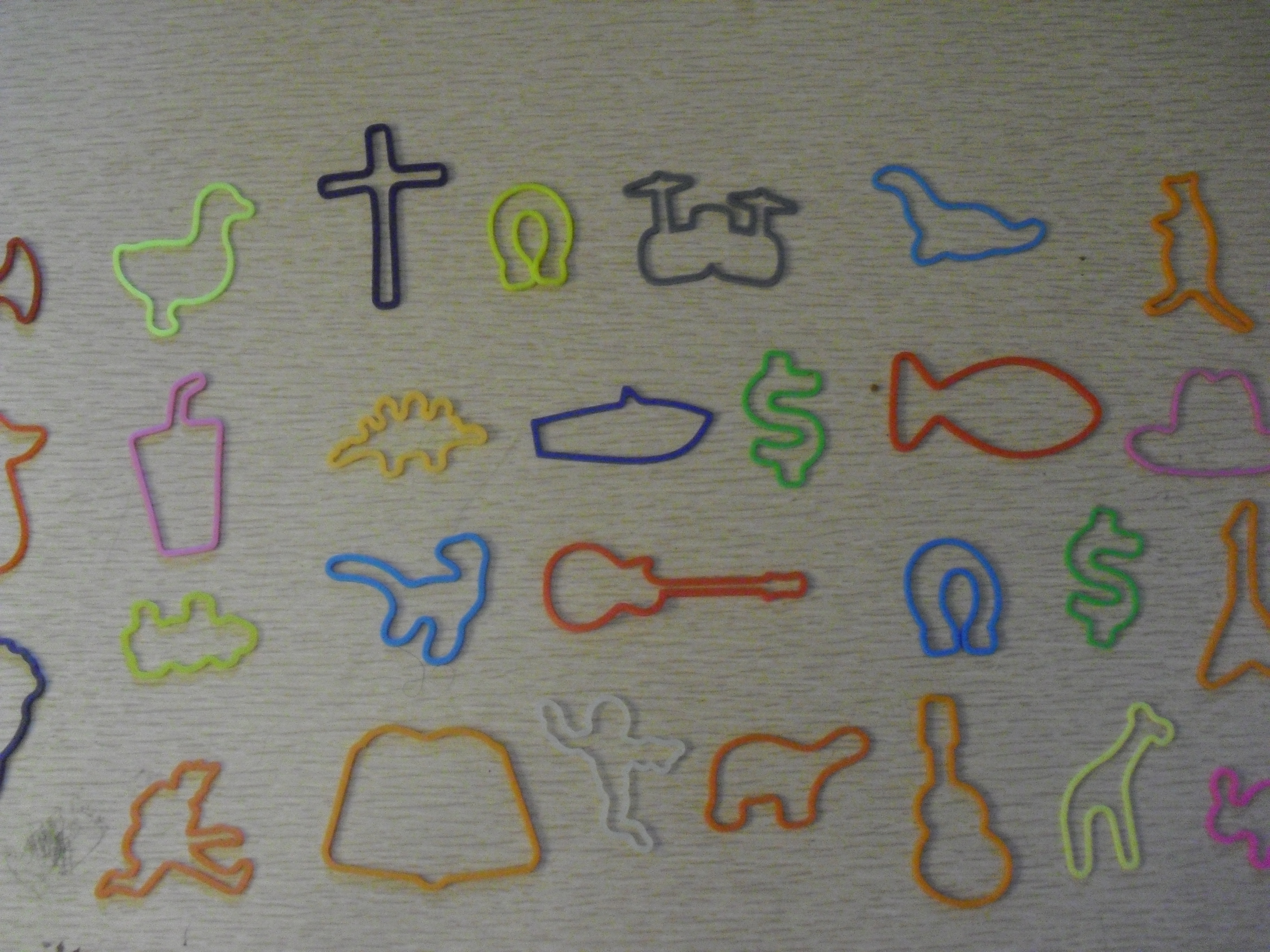 it is my own picture that is free to be copied.